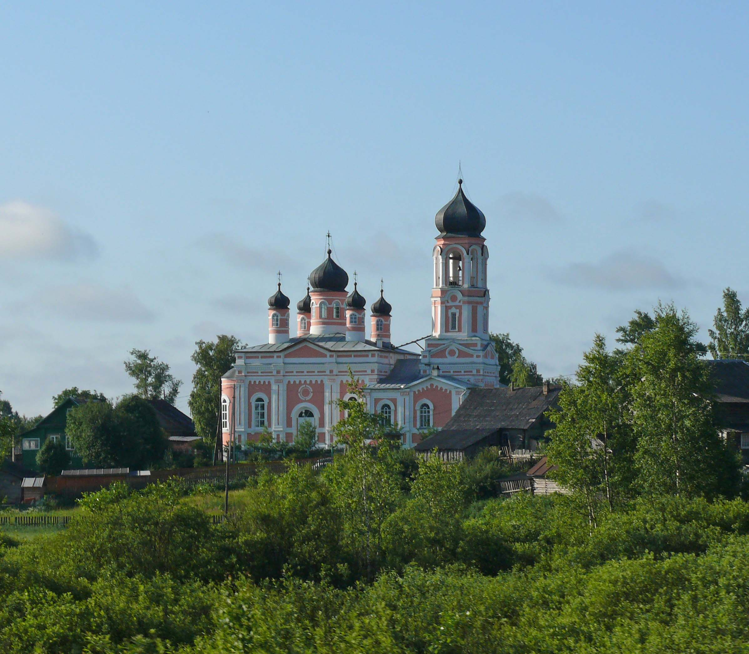 The churche of Trinity in Yamskaya Sloboda village. Krestetsky district, Novgorod oblast, Russia